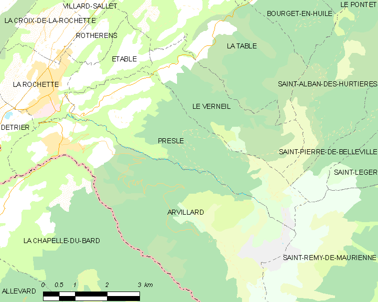 Map of French municipality